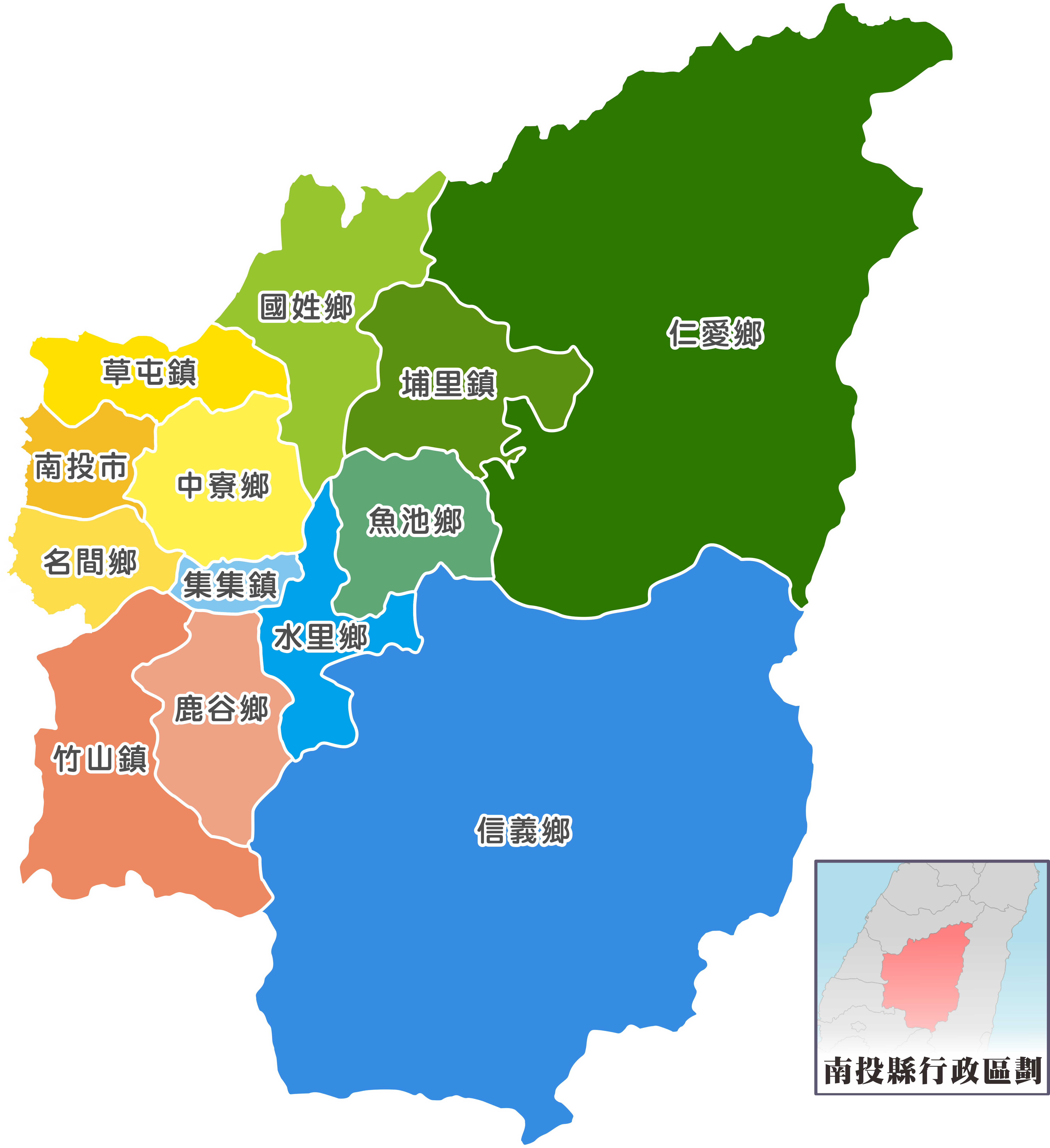 Nantou County District